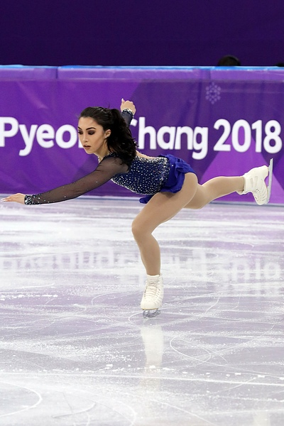 Gabrielle Daleman at the 2018 Winter Olympics